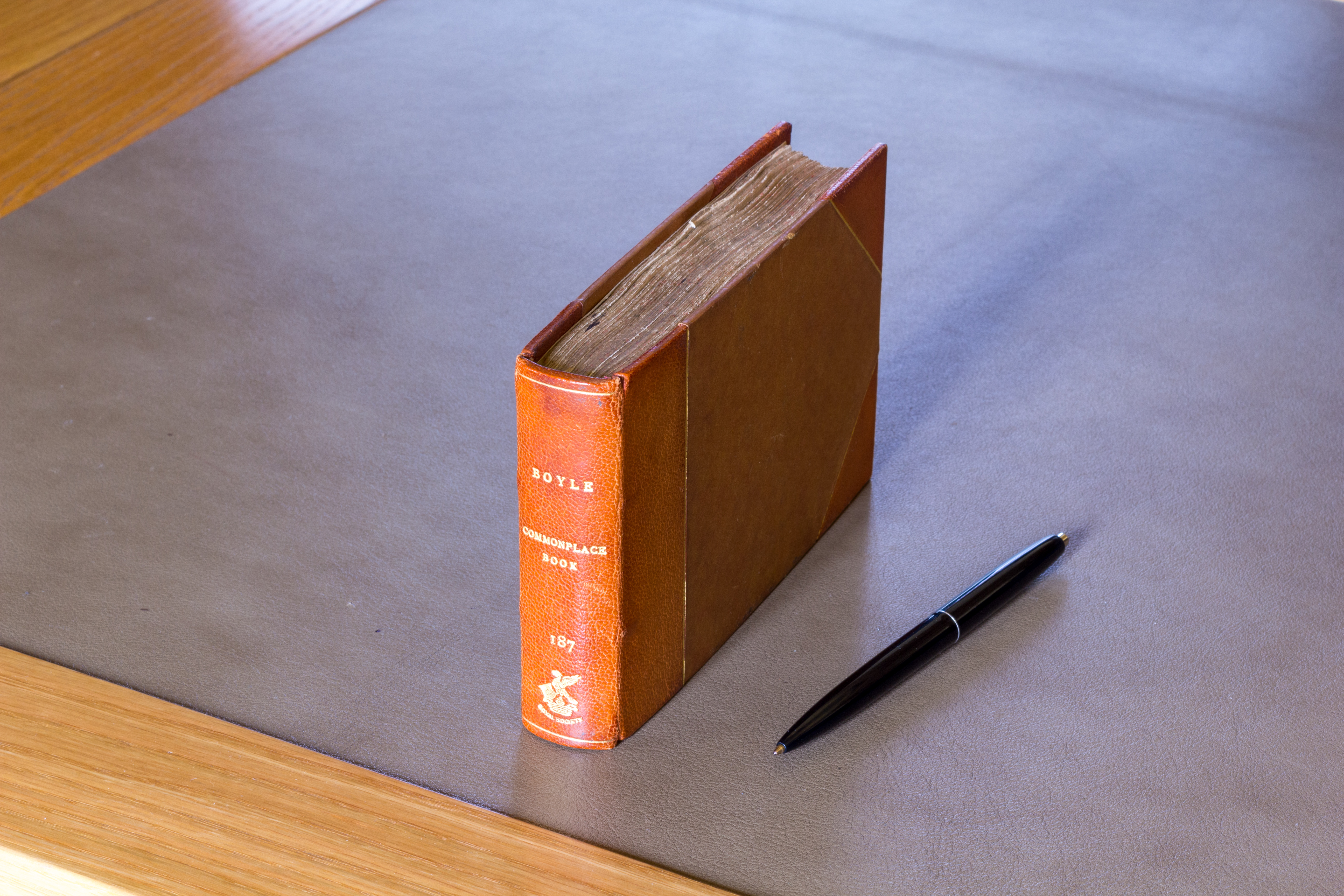 MS/187 – Robert Boyle notebook 1690-1691. Robert Boyle was a founding Fellow of the Royal Society. The RS archives holds 46 volumes of philosophical, scientific and theological papers by Boyle and 7 volumes of his correspondence.